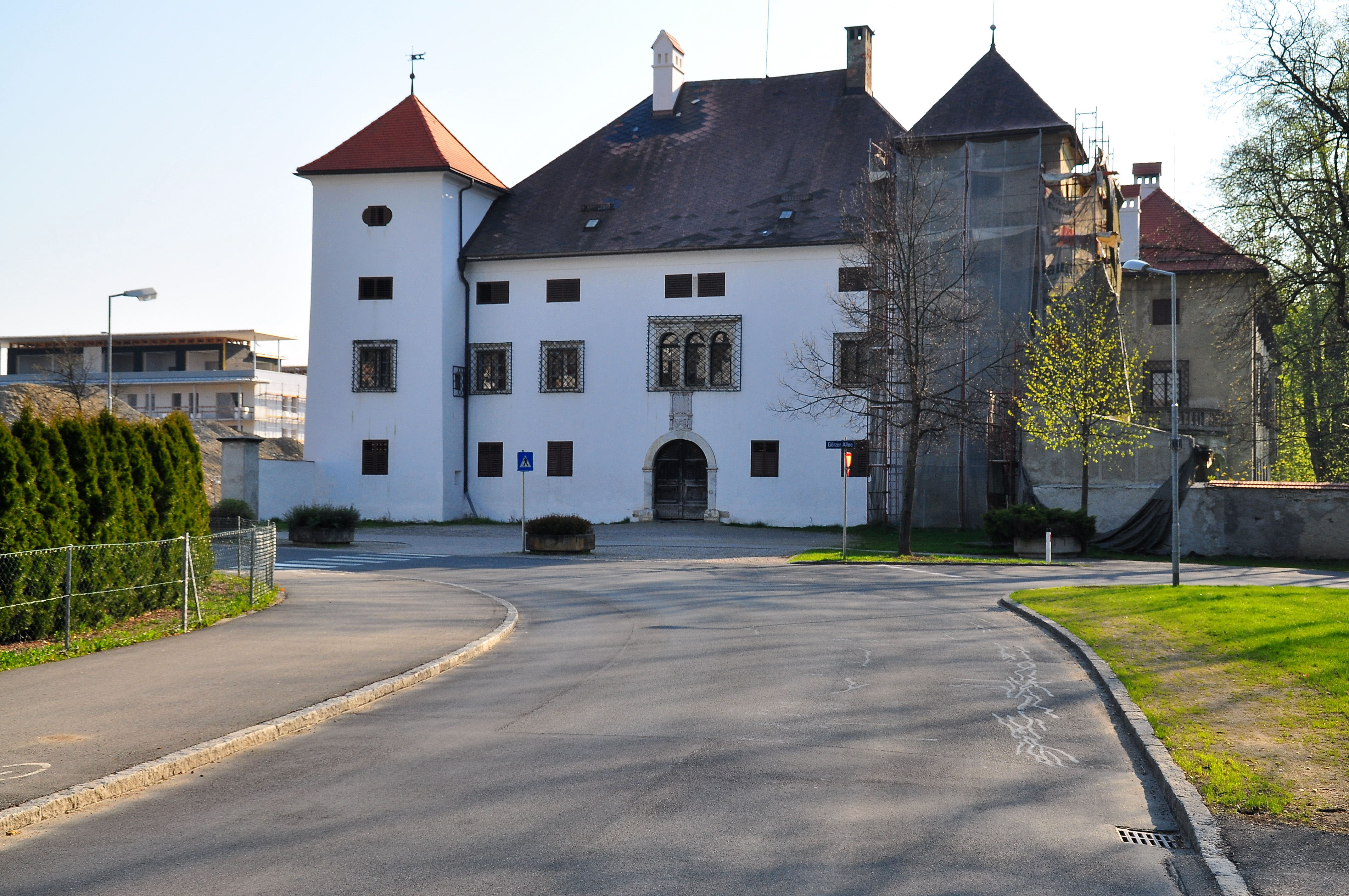 Castle Welzenegg on the Victor-Welzer-Platz #1 in the 10th district "Sankt Peter" of Carinthian`s capital Klagenfurt on the Lake Woerth, Carinthia, Austria, EU